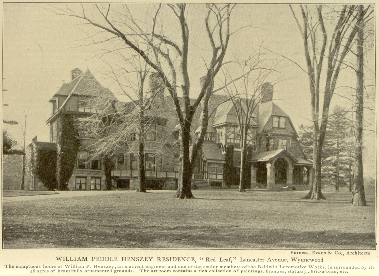 "Red Leaf," William P. Henszey Mansion, 510-14 Lancaster Avenue, Wynnewood, Pennsylvania (1881, expanded c. 1893, burned 1898), Furness, Evans & Co., architects.